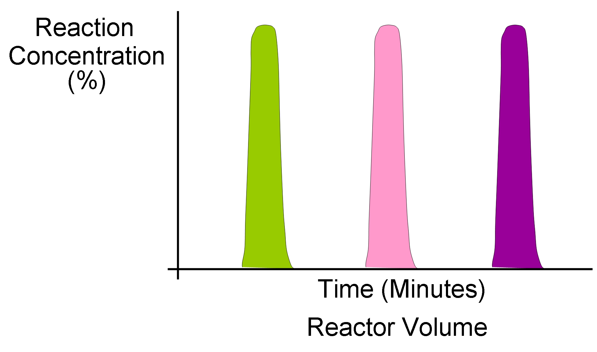 Serial-Parallel Segmented Flow Chemistry